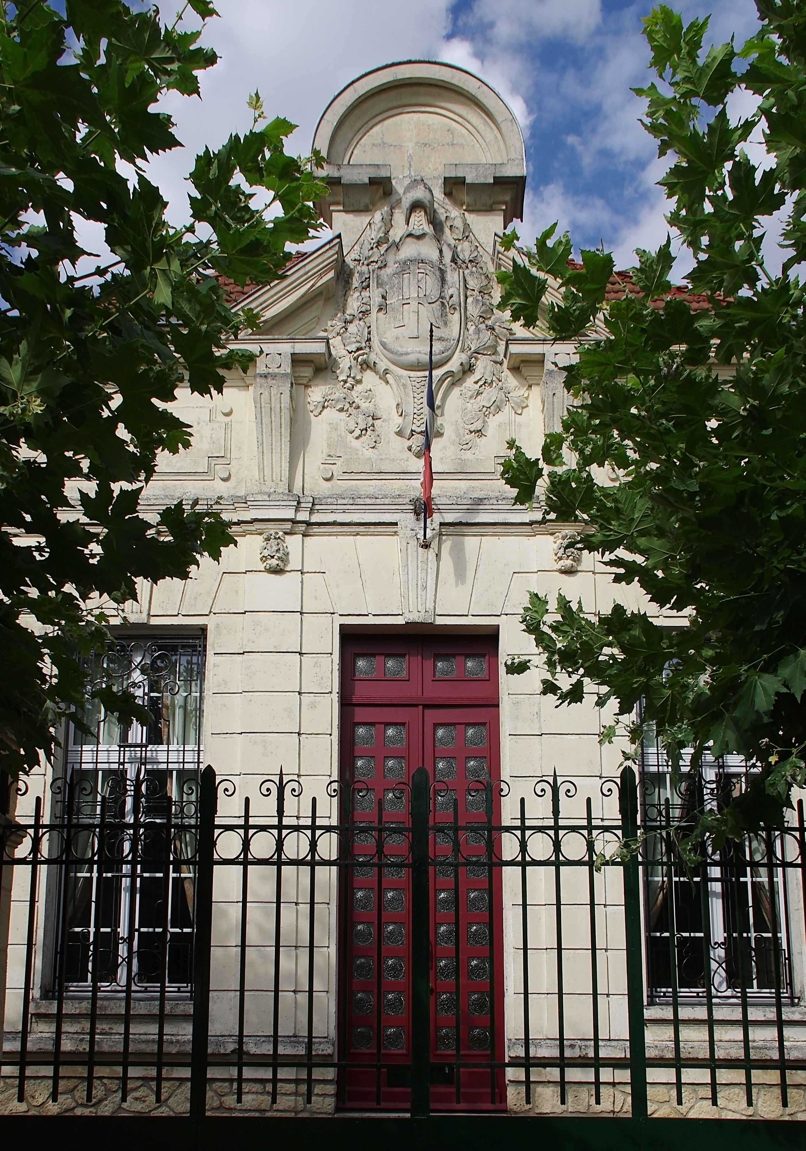 Town hall entrance, Saint-Jean-de-Blaignac, Gironde France.